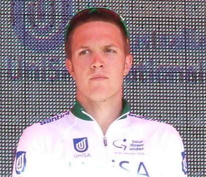 Named cyclist at the en:2009 Tour Down Under team presentation